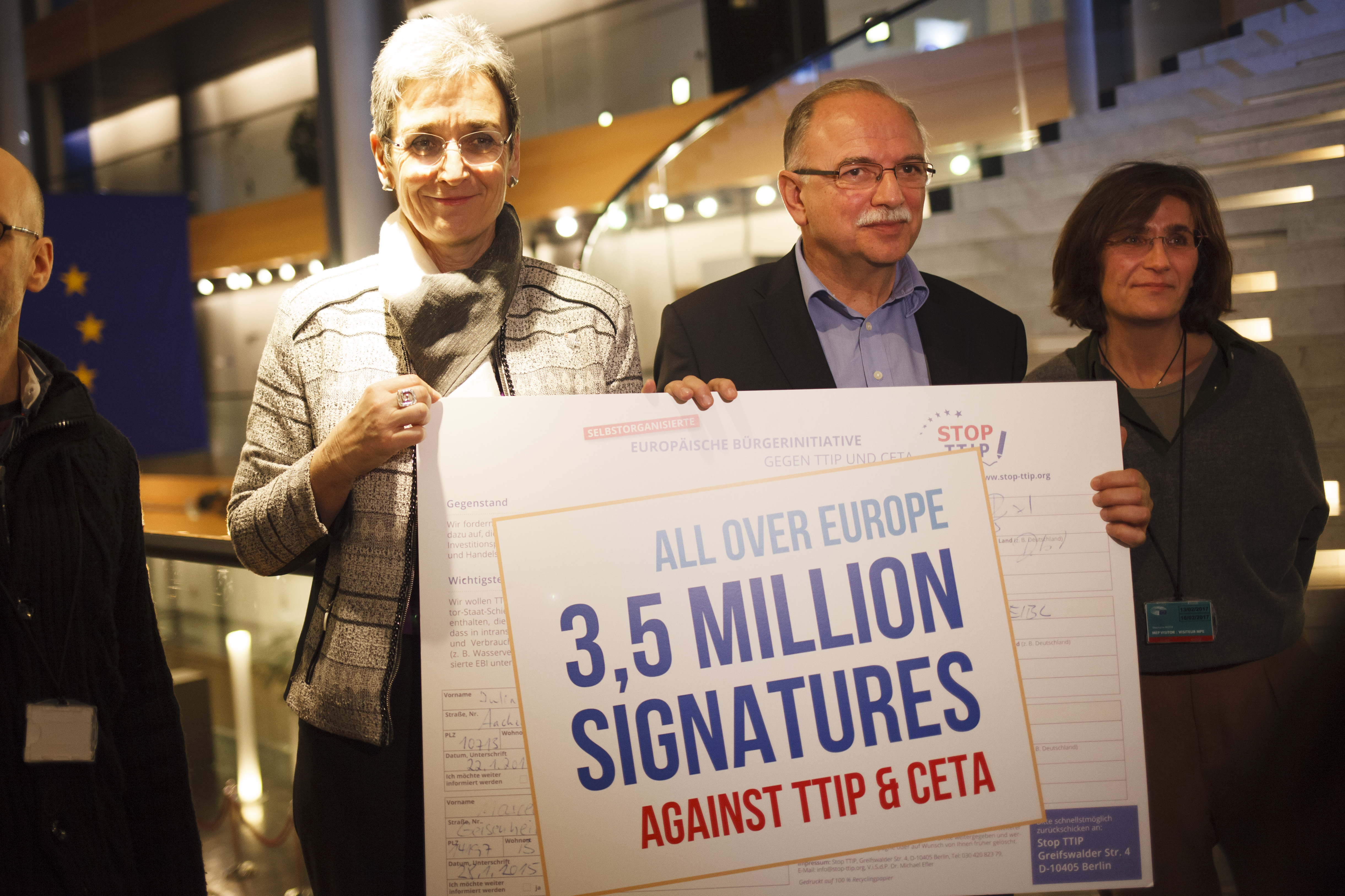 Stop CETA signatures handover to the European Parliament